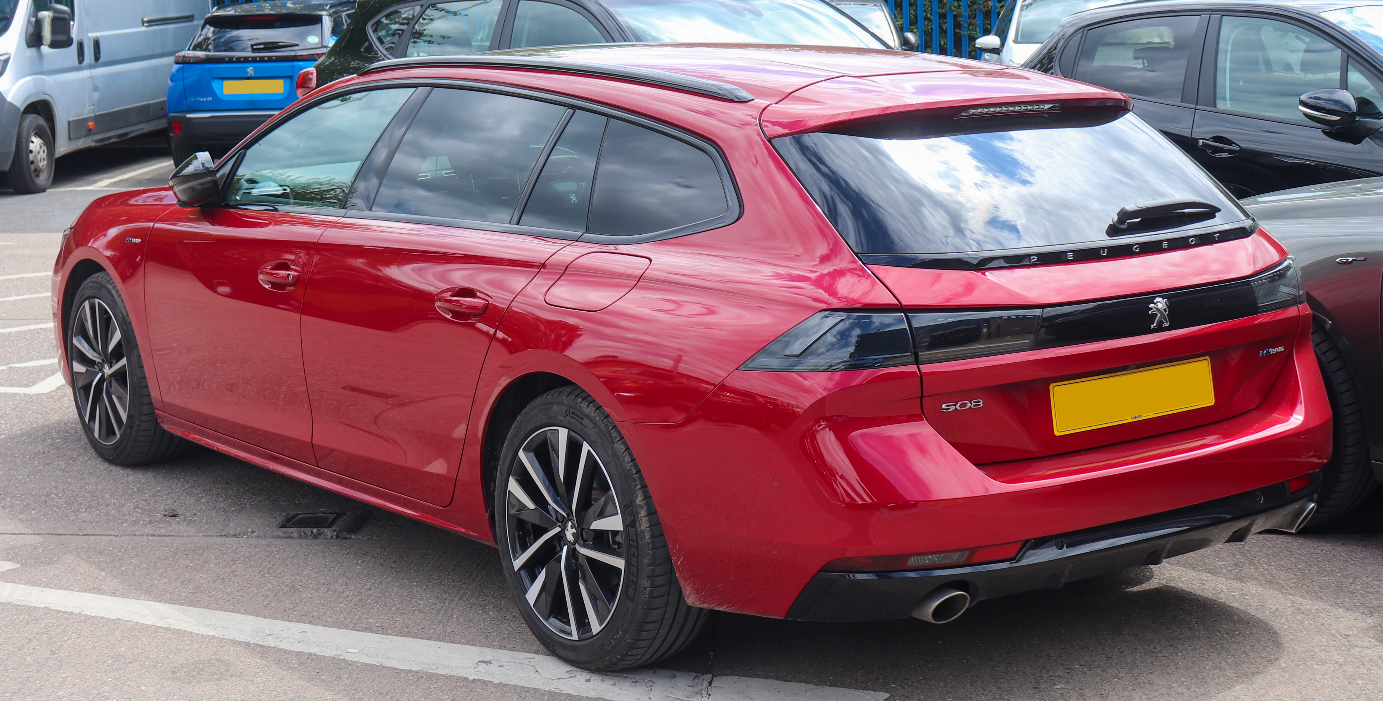 2020 Peugeot 508 GT SW PHEV Automatic 1.6 Rear Taken in Leamington Spa